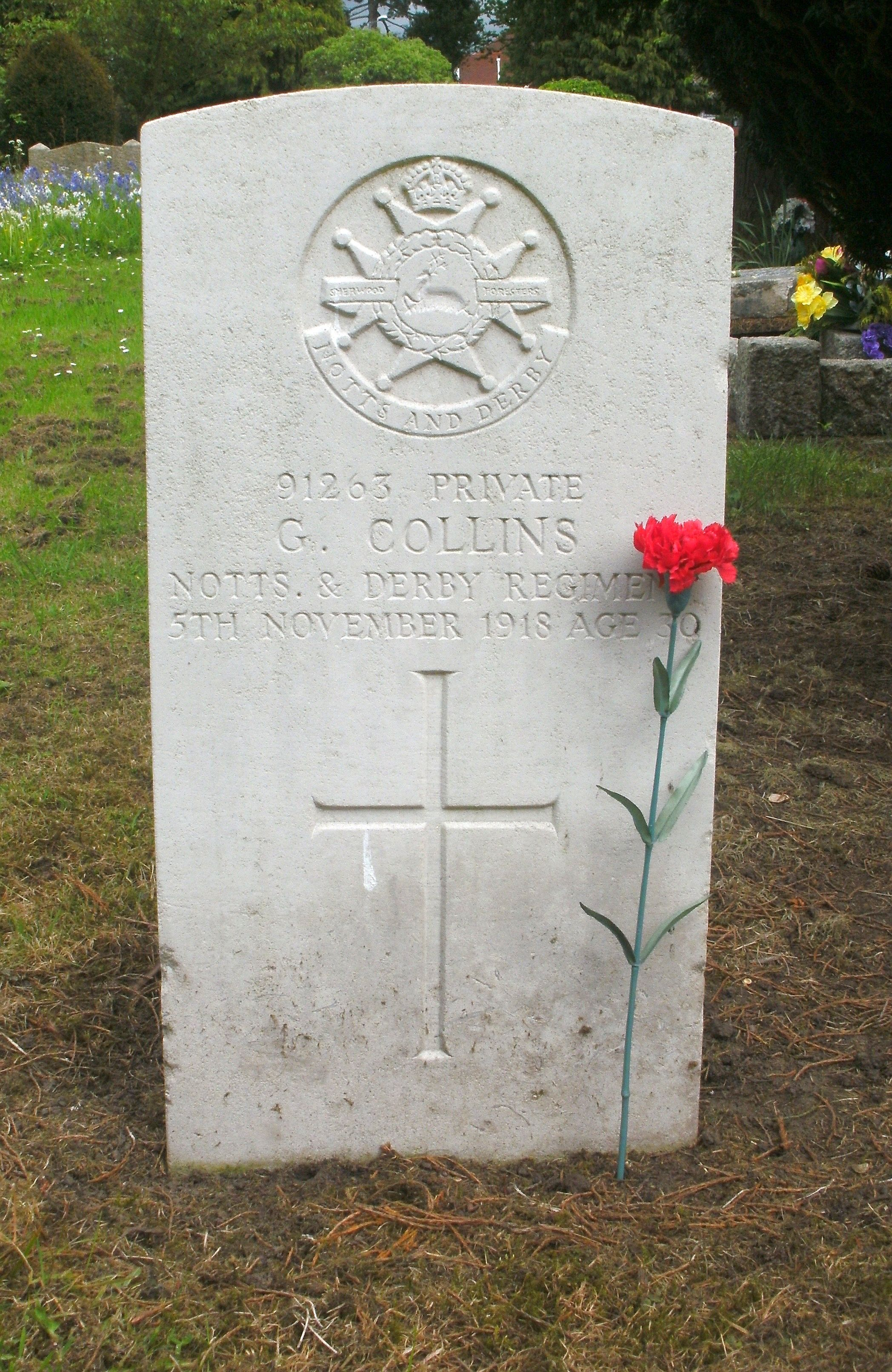 Commonwealth War Graves Commission headstone in Bromsgrove Cemetery, Worcestershire, for Pte G Collins, Notts & Derbys Regt (Sherwood Foresters), who died on 5 November 1918 aged 30